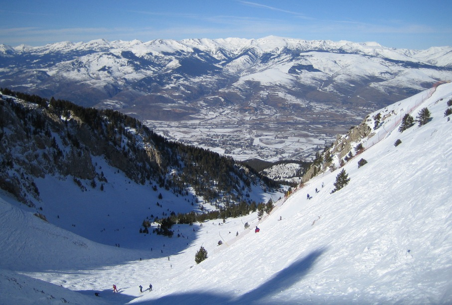 Coma Oriol canyon in Masella ski resort (Cerdanya, Catalonia)